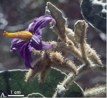 Flower of Solanum falciforme